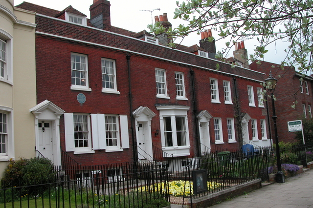 The birthplace of Charles Dickens. It's the first house, with the blue plaque. Charles was born here but leftwhen he was three and his father, who worked for the Navy Pay Office, was moved back to London by the Navy.